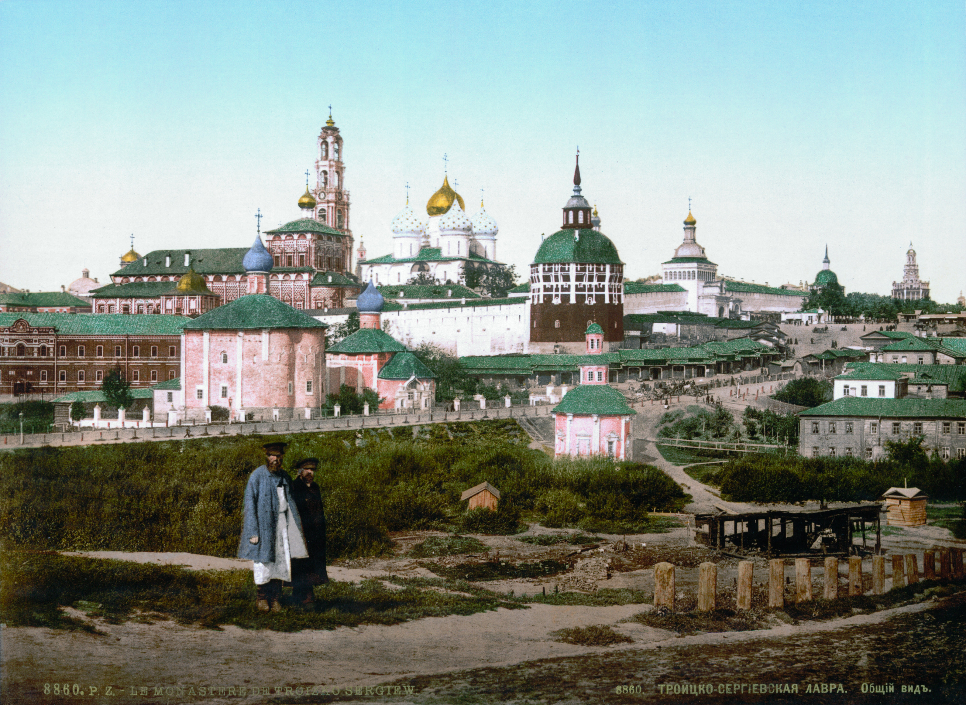 Trinity-St. Sergius Lavra in the early 20th century. Photochrom is a colorizing process developed in Zurich, combining photography and color lithography. Popular in the 1890s, the technique was frequently used to print postcards of landscapes and towns, such as this view of Troitse-Sergiyeva Lavra.